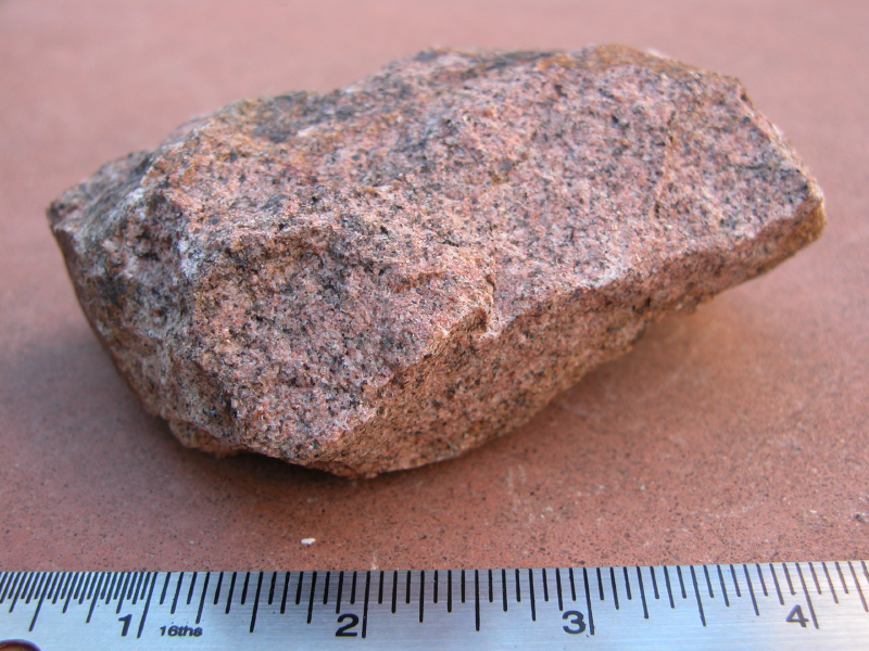 Aplite sample, NASA Rocklibrary